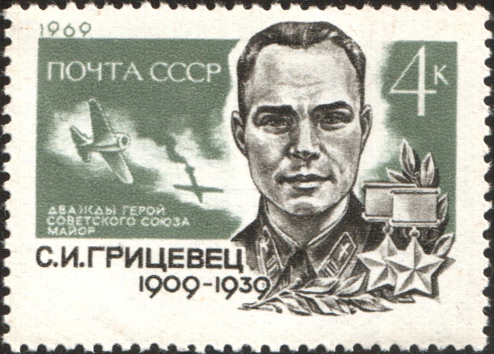 USSR stampː Sergey Gritsevets and Fighter Planes. 60th Birth Anniversary of Fighter Pilot Major Sergey Gritsevets, Twice Recipient of the Honorary Title of Hero of the Soviet Union (1909-1939)